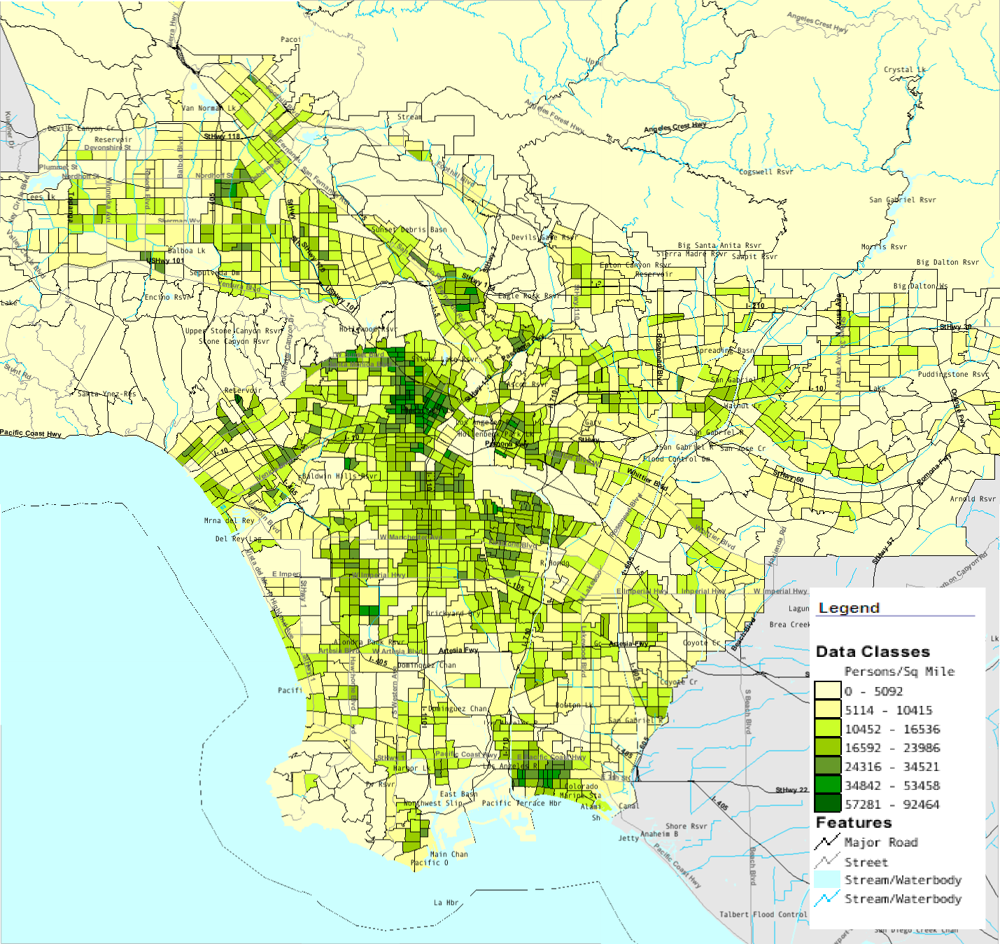 Map of southern Los Angeles County with population density by census tract from 2000 Census